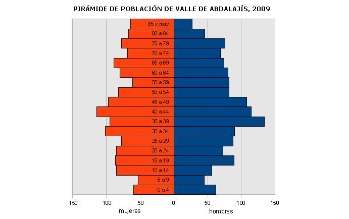 Pirámide de Población de Valle de Abdalajís (2009)